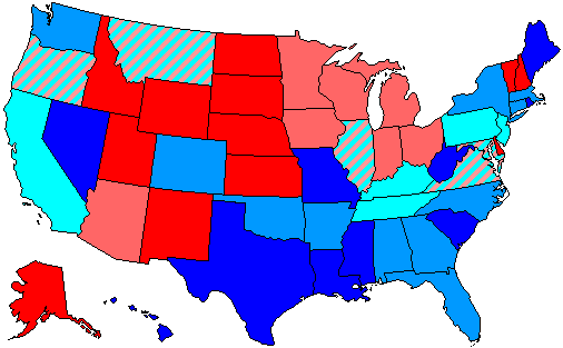 Summary of party control of U.S. house seats in the 91st United States Congress following the 1968 election. Stripes indicate a tie between two or more parties. Legend: 80.1-100% Democratic seat majority 60.1-80% Democratic seat majority 60% or less Democratic seat plurality 60% or less Republican seat plurality 60.1-80% Republican seat majority 80.1-100% Republican seat majority